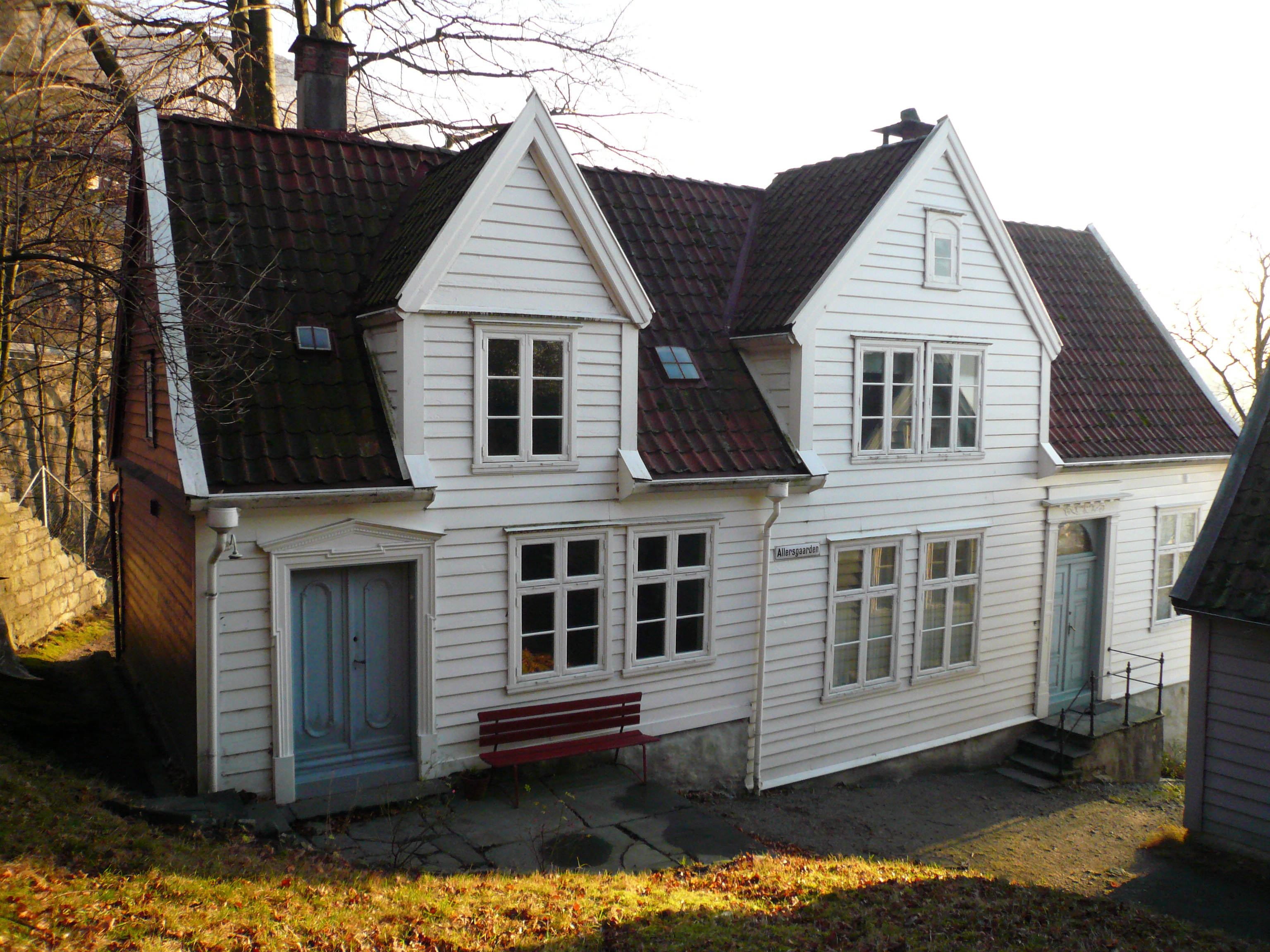 Allersgården, Gamle Bergen Museum